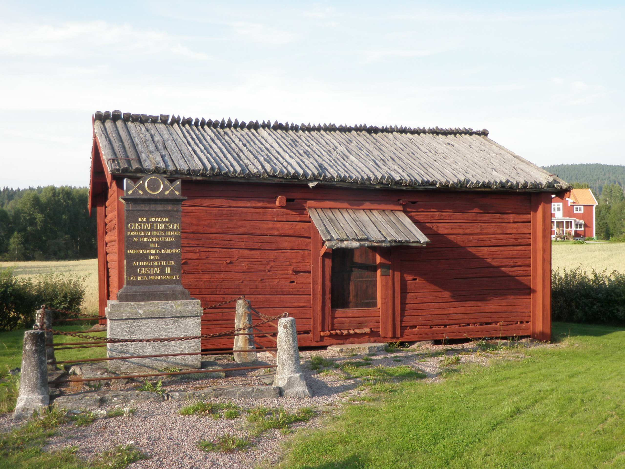 Isala King's barn.